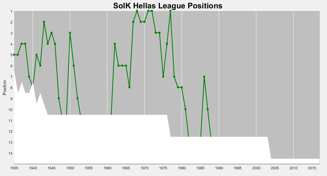 SoIK Hellas (handball) positions in the top division. The grey area denotes the number of teams in the top division. For split seasons, the autumn positions are shown when the team did not play in the top division in the spring season.